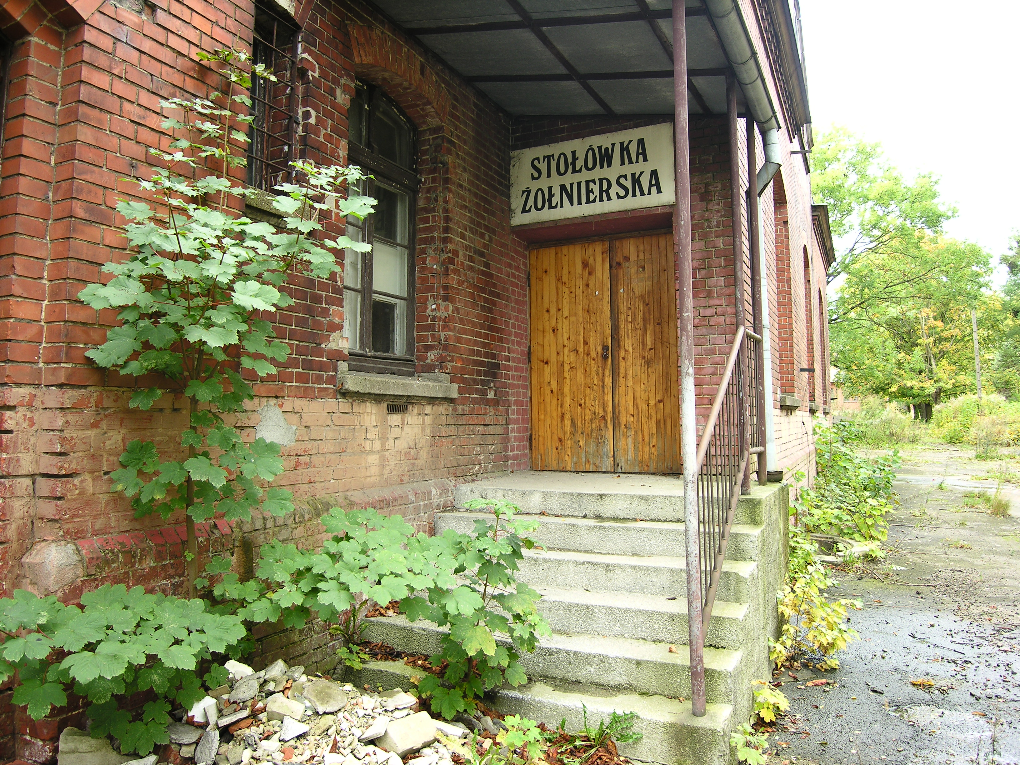 Garisson in Wrzeszcz - old canteen